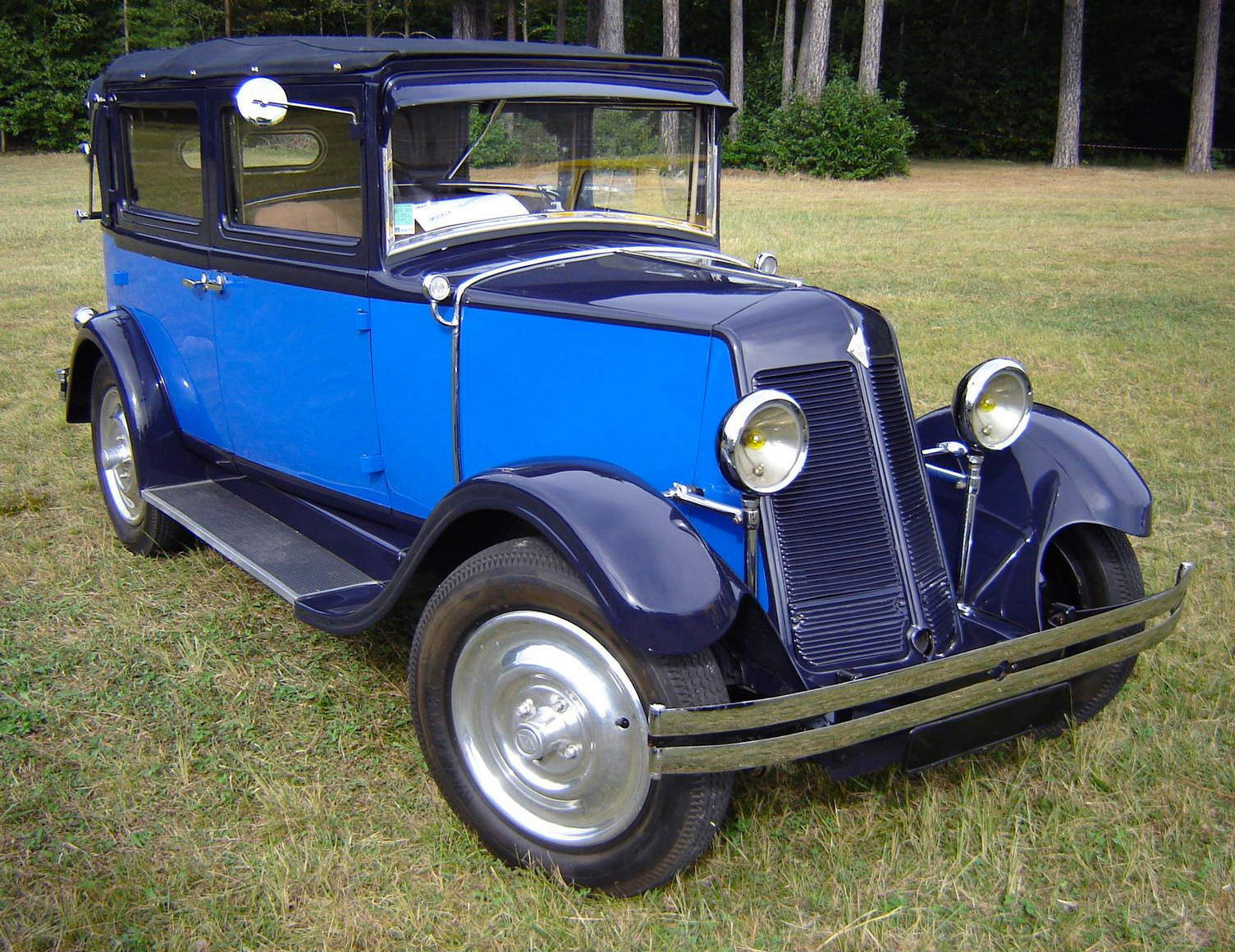 1929 Renault Monastella at the Autodrome de Linas-Montlhéry, 2009